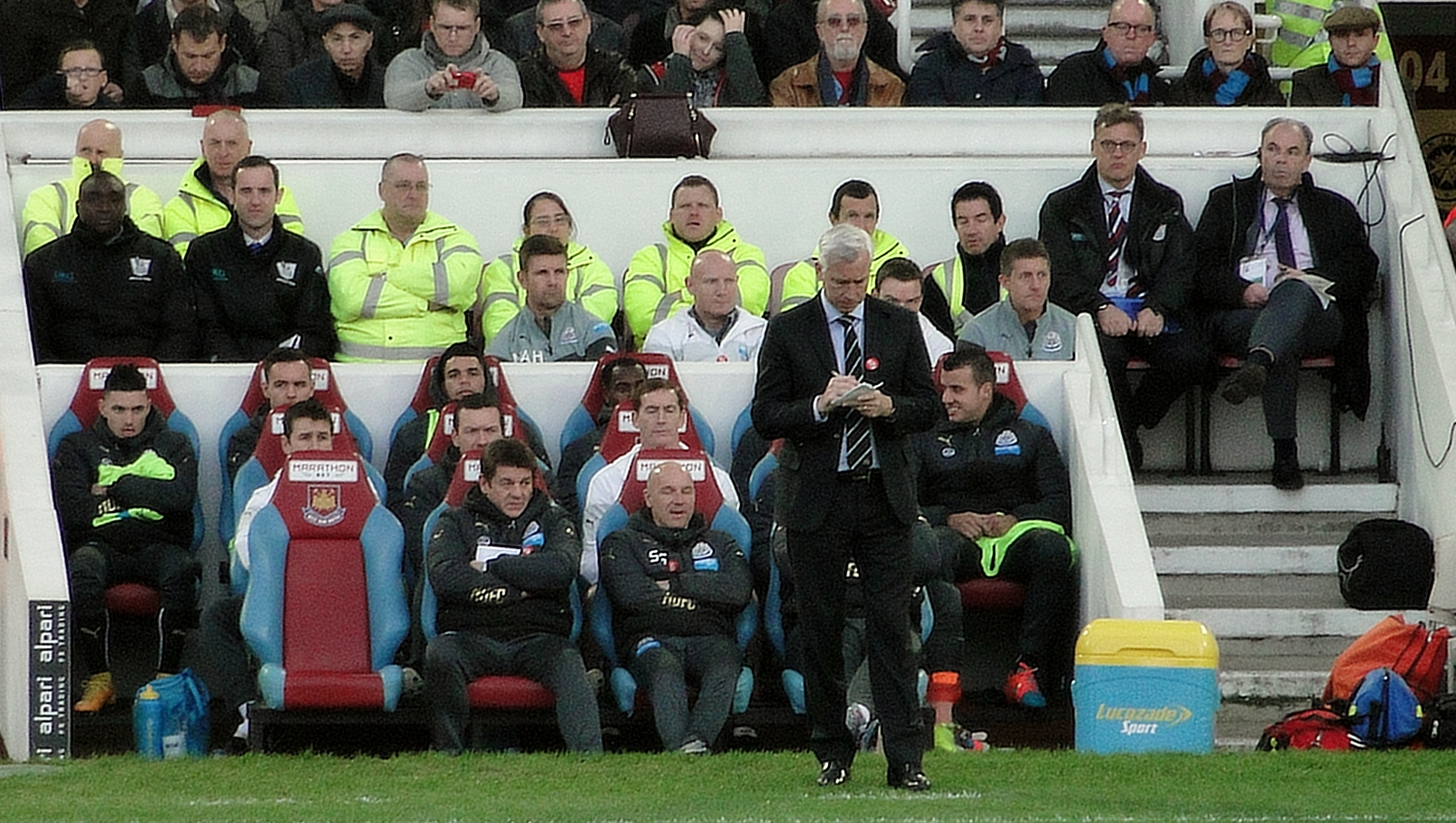 Alan Pardew (front, standing) as manager of Newcastle United, during their Premier League defeat to West Ham United at the Boleyn Ground, November 2014